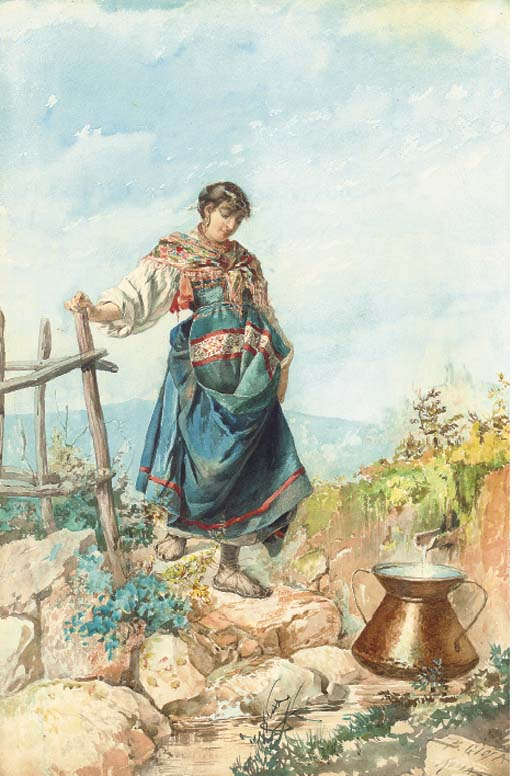 Ciociarella (Belisario Gioia)